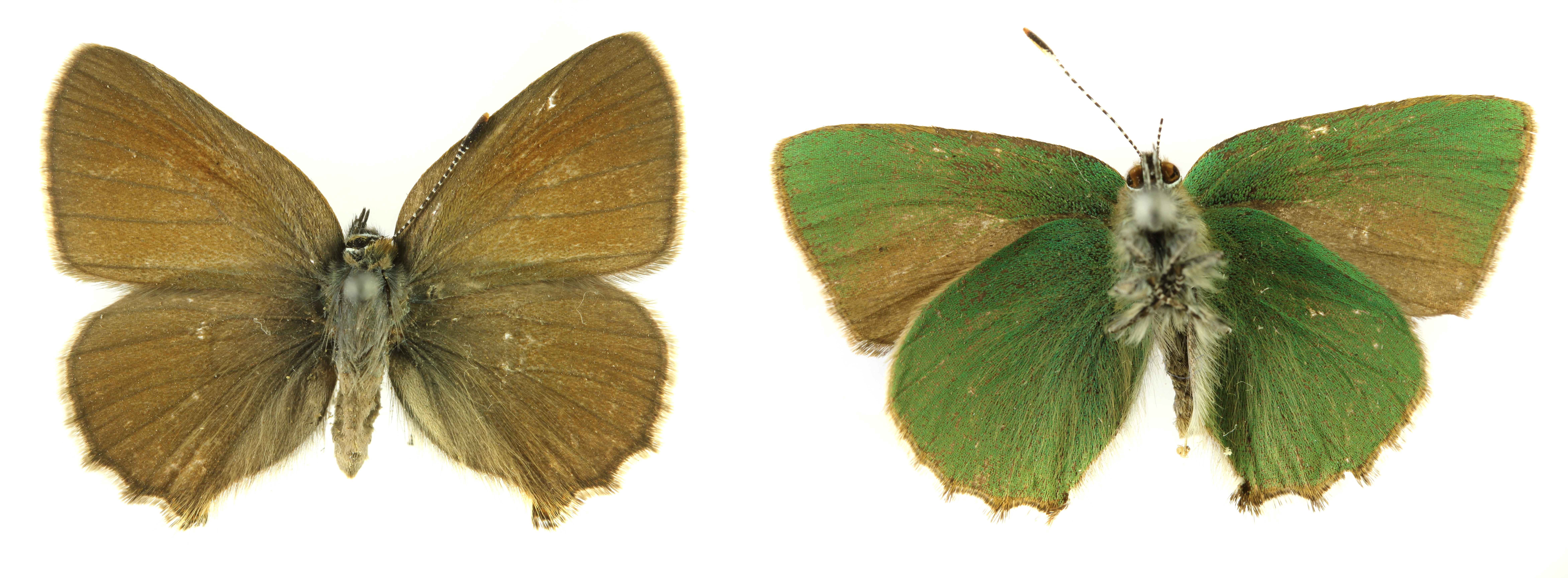 Callophrys rubi insect collections SLU, Uppsala